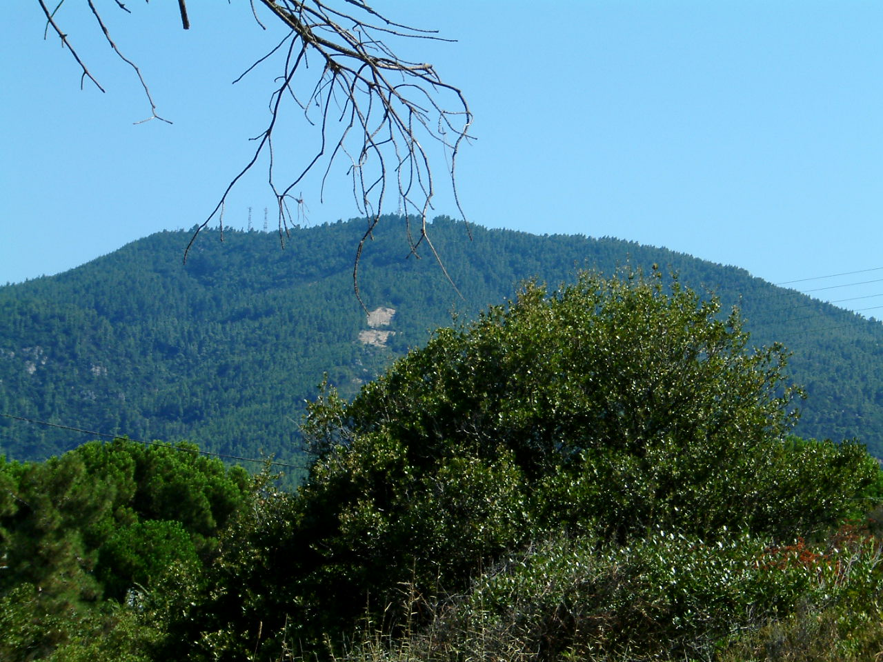 Karvounas Mountain, located Vourvourou, Agios Nikolaos, Chalkidiki, Central Makedonia, Greece